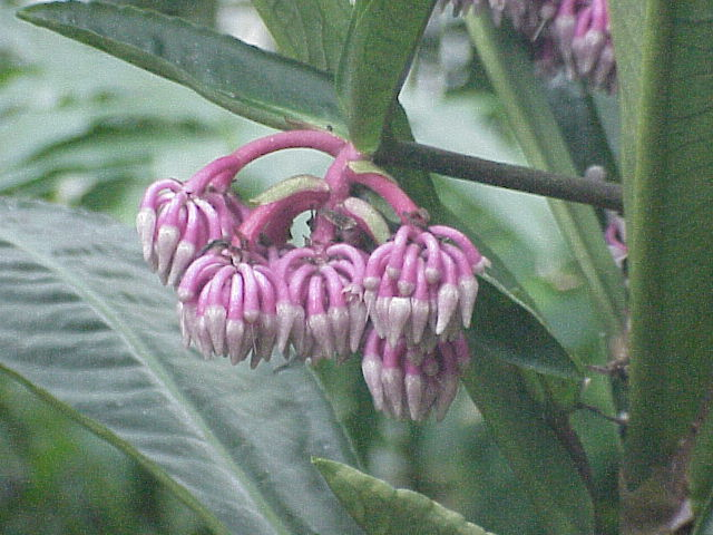 Species: Hymenandra wallichii Family: Myrsinaceae Image No. 2